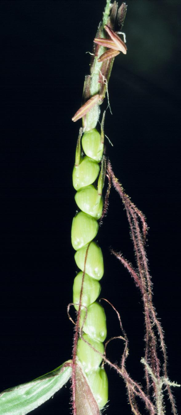 The diploid perennial teosinte produces pistillate spikelets both in the axils of leaves along the main stem and at the ends of the main branches where staminate spikelets terminate the spike.